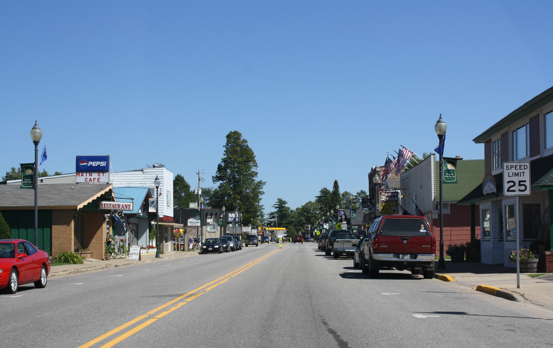 Looking east at downtown Three Lakes, Wisconsin on U.S. Route 45.